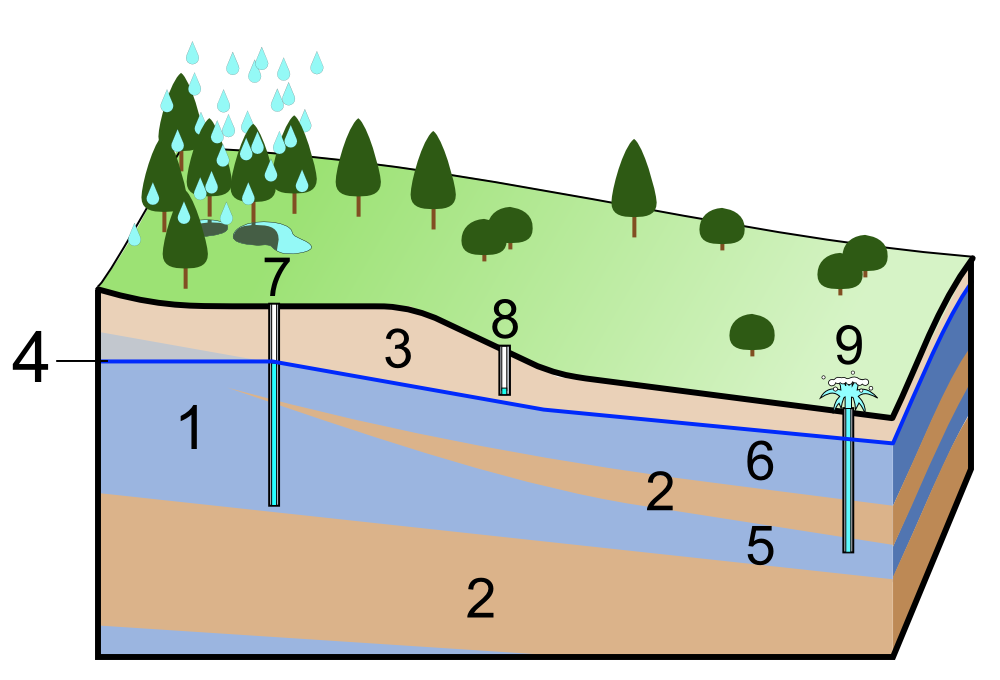 1. Aquifer 2. Aquitard 3. Unsaturated zone 4. Water table 5. Confined aquifer 6. Unconfined aquifer 7. Deep well 8. Sort well 9. Artesian well